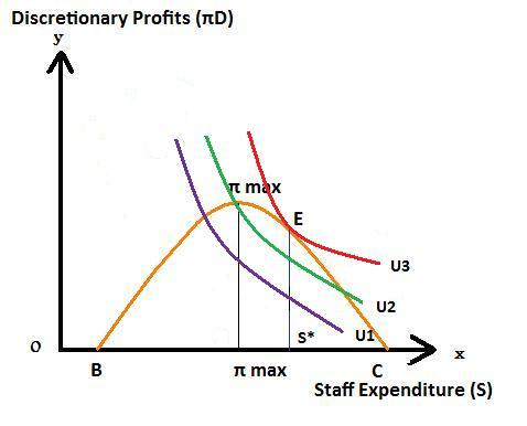 Equilibrium of firm in Williamson's Model of Managerial Discretion